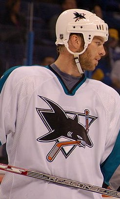 Mark Smith in a game vs. St. Louis Blues, November 28, 2006